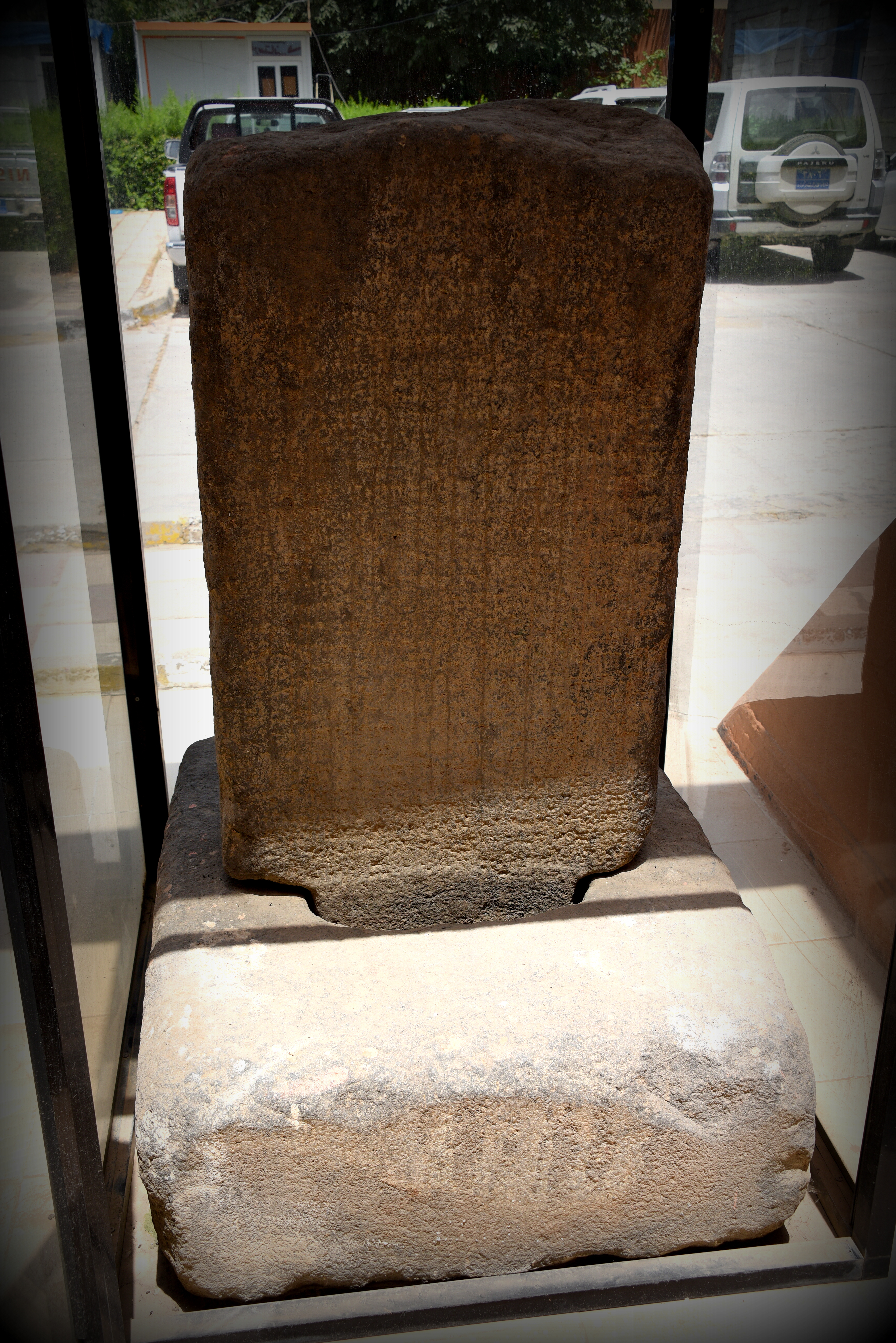 Each side of this stele was carved with cuneiform inscriptions. The stele underwent several damages during its journey and transportation. Few lines have survived unfortunately, and but they could be recognized and deciphered. One side was Assyrian and the other one was Urartian. The rock narrates the military accomplishments of the Urartian king Rusas I and the clashes with the Assyrian army. The stele belonged to the kingdom of Musasir at Sidekan village, Erbil Governorate, Iraq Erbil Civilization Museum, Iraqi Kurdistan.